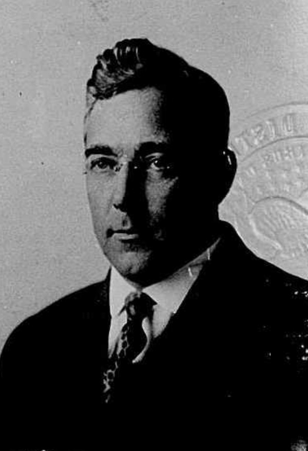 Passport application photo for John P. Rusk